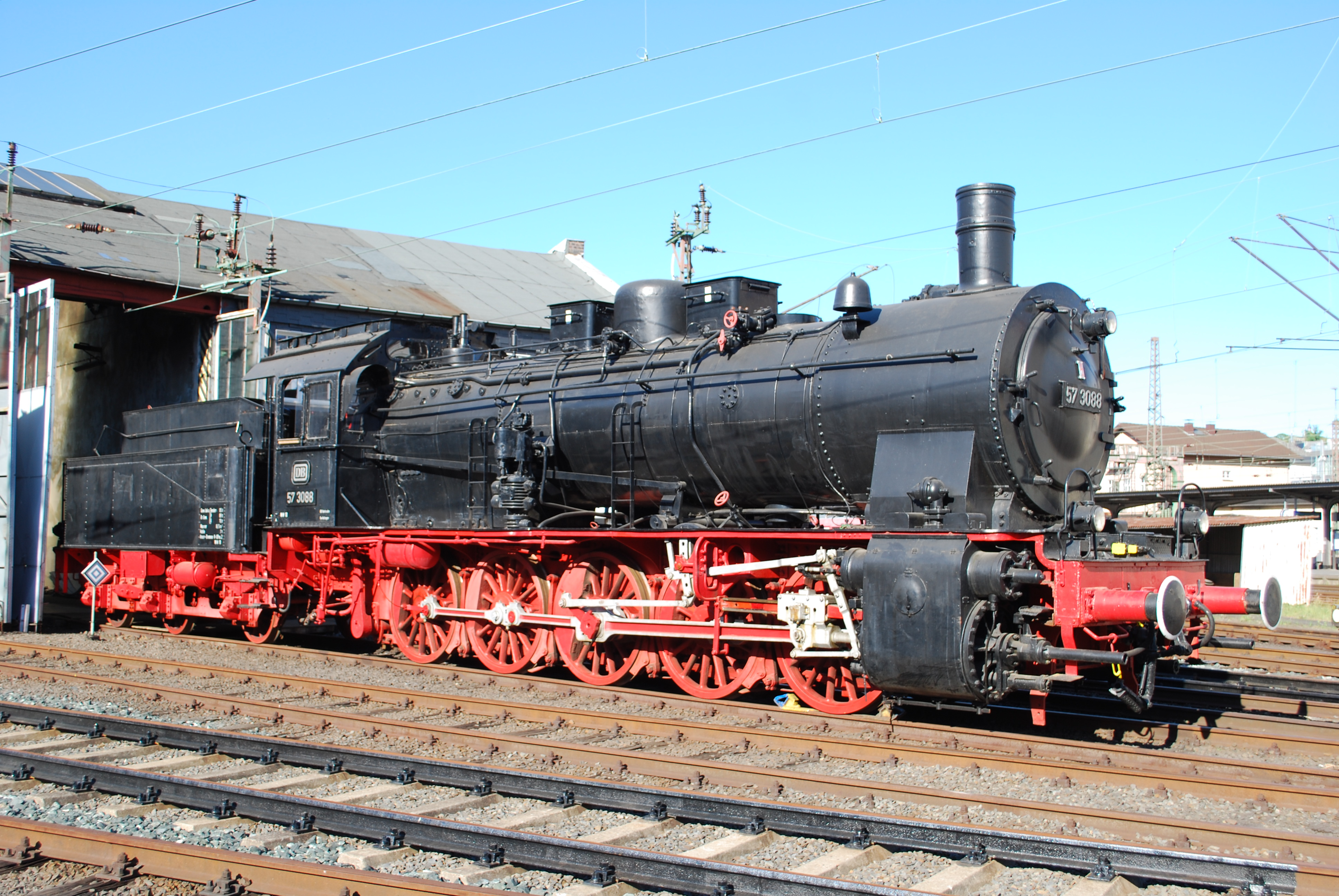 Prussian (KPEV) Class G 10 (57.10). Steam locomotive 57 3088 with the usual DRG extended chimney. Has 3T20 tender. Built in 1922 by DRE. About 2589 steam locomotives were built 1910-1924. At Siegen Depot Museum.